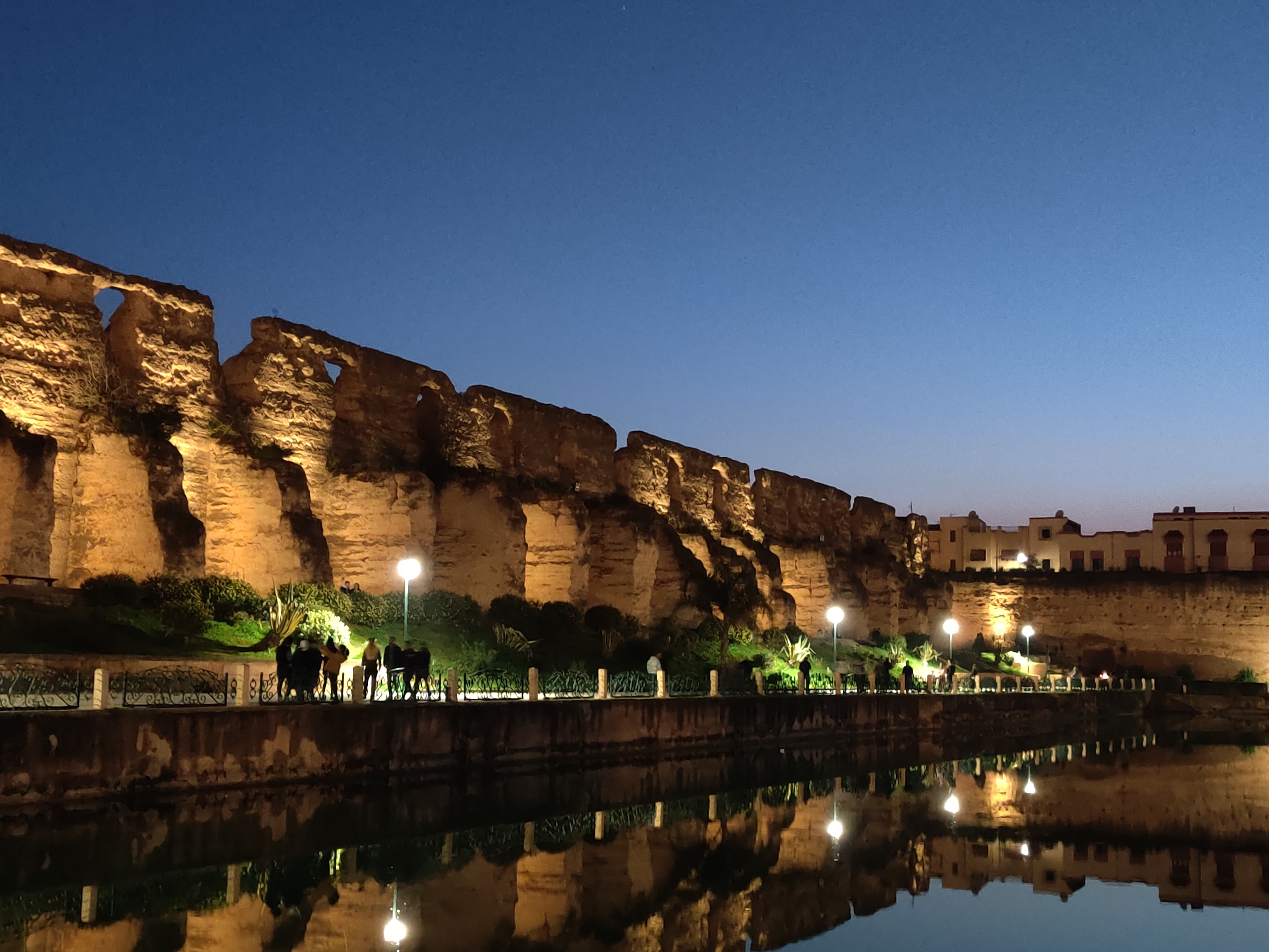 This is an image with the theme "Africa on the Move or Transport" from: Morocco